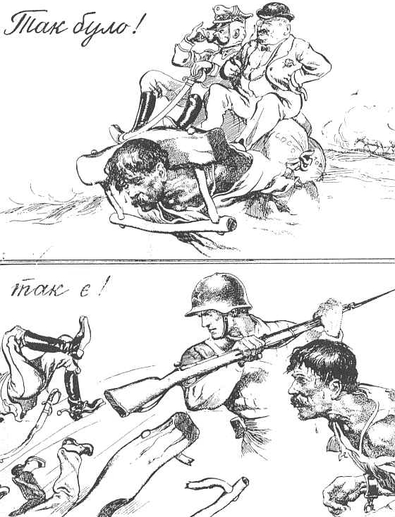 Soviet propaganda poster showing the bad fate of a peasant under Polish yoke and the liberation by the Red Army (text in Ukrainian)